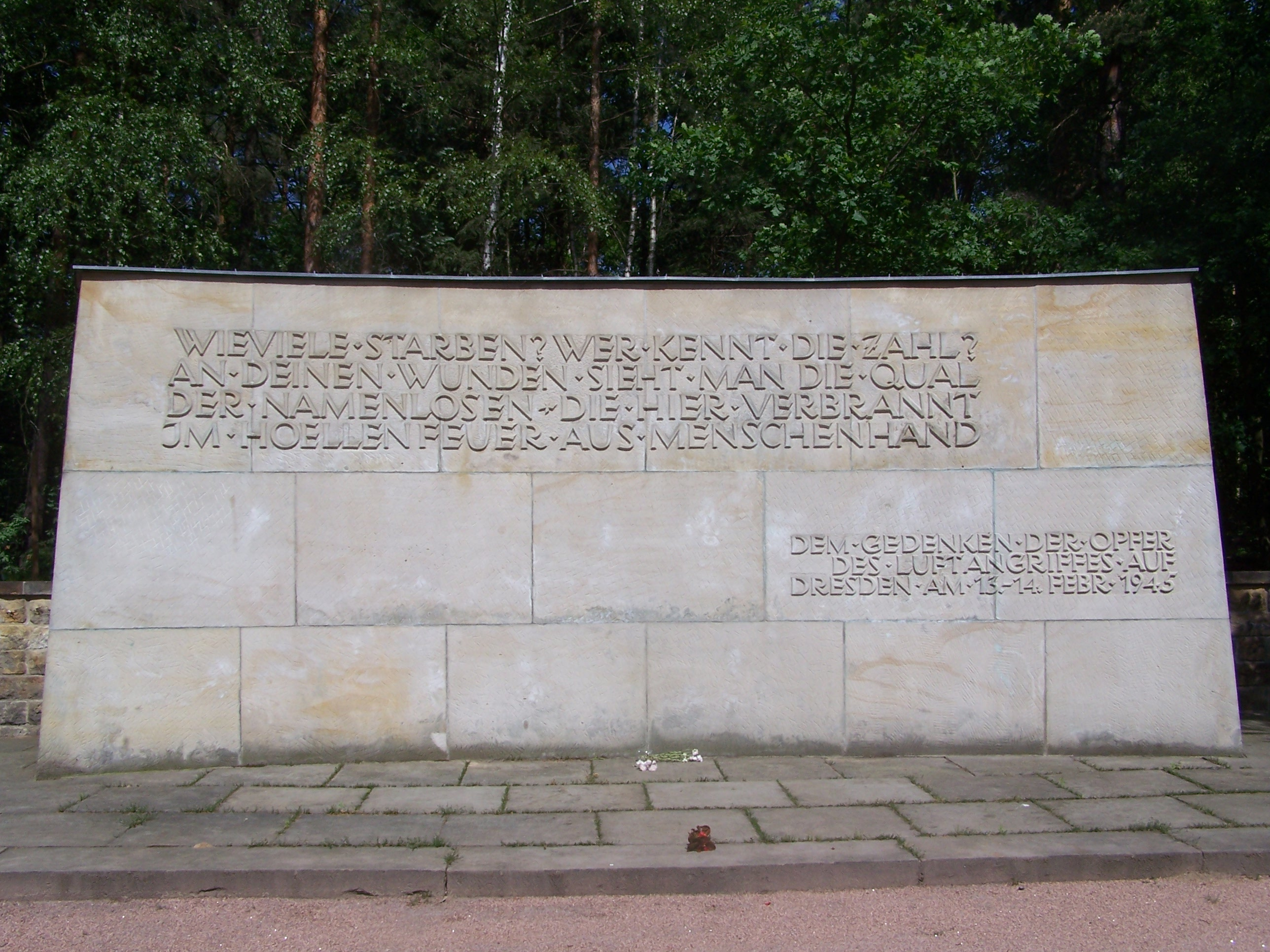 memorial for the casualties of the bombing of Dresden in WW 2 at the cemetery Heidefriedhof in Dresden